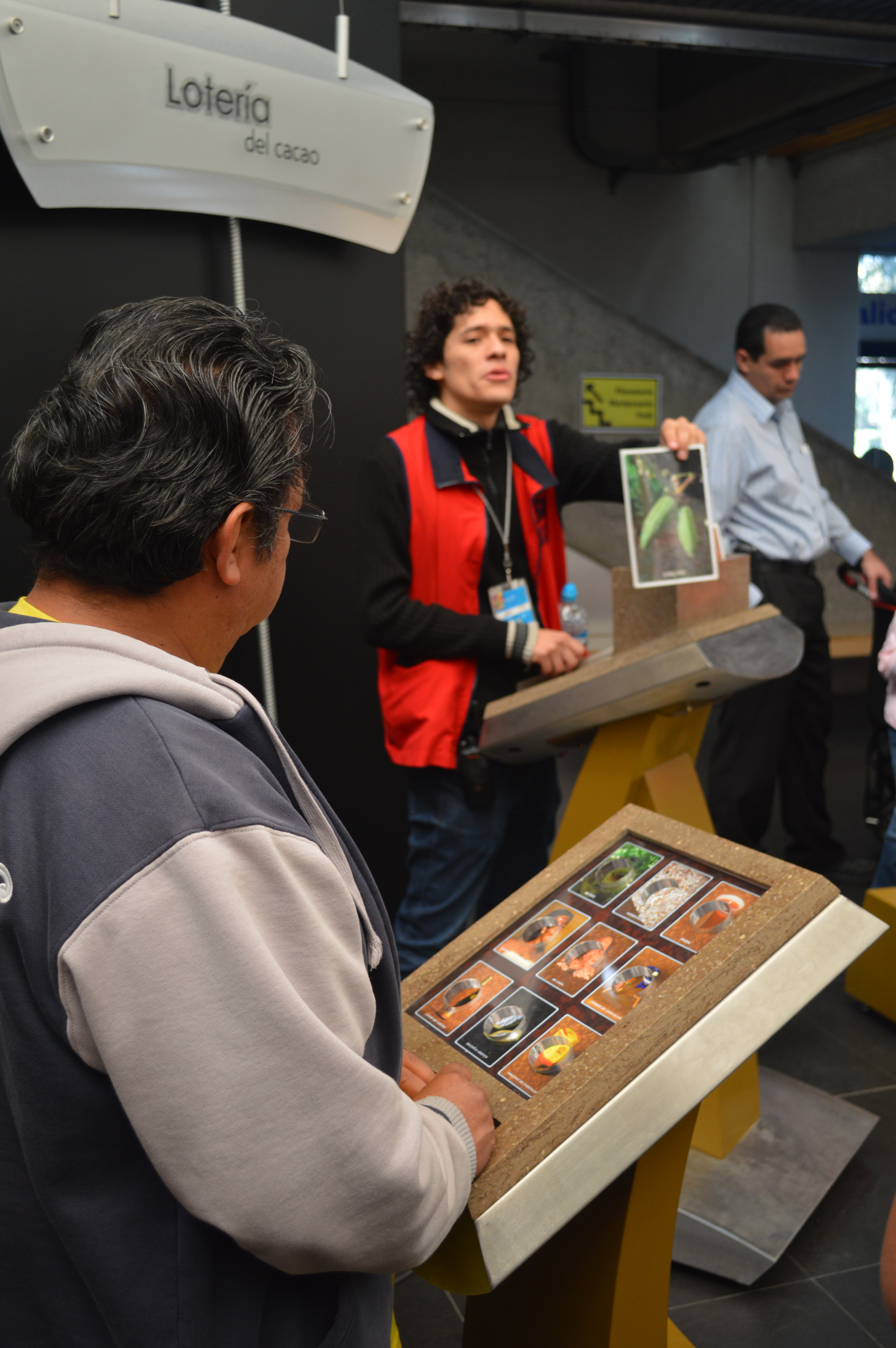 Scene from a lotería game with a cacao theme as part of a cacao exhibit at the Universum museum at Ciudad Universitaria in Mexico City